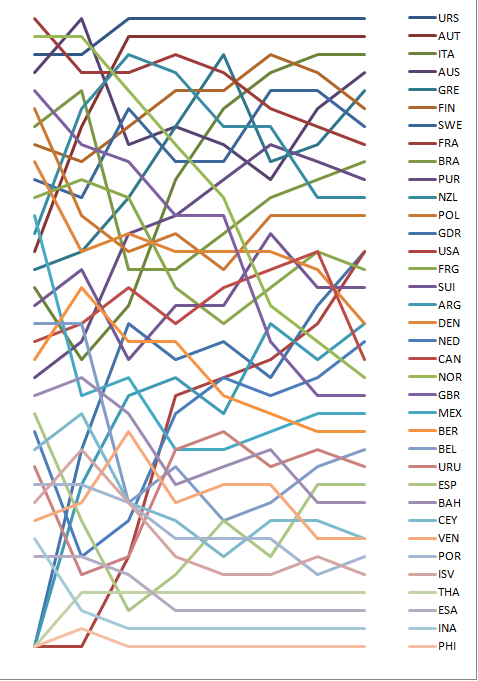 1968 Olympic Sailing Daily Standings Finn